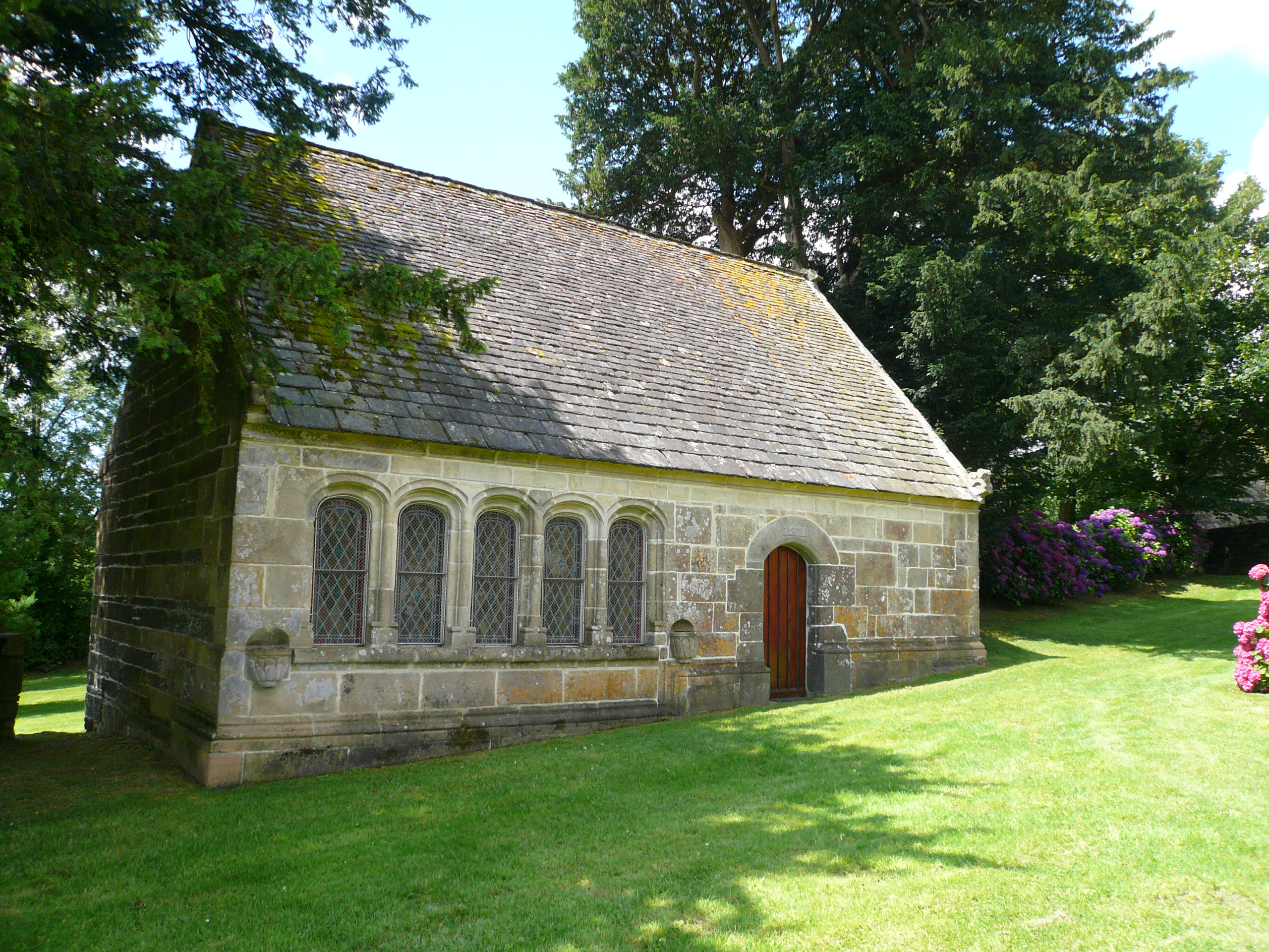 Former ossuary of Quimerc'h parish enclosure, Pont-de-Buis-lès-Quimerc'h, Finistère, Brittany, France